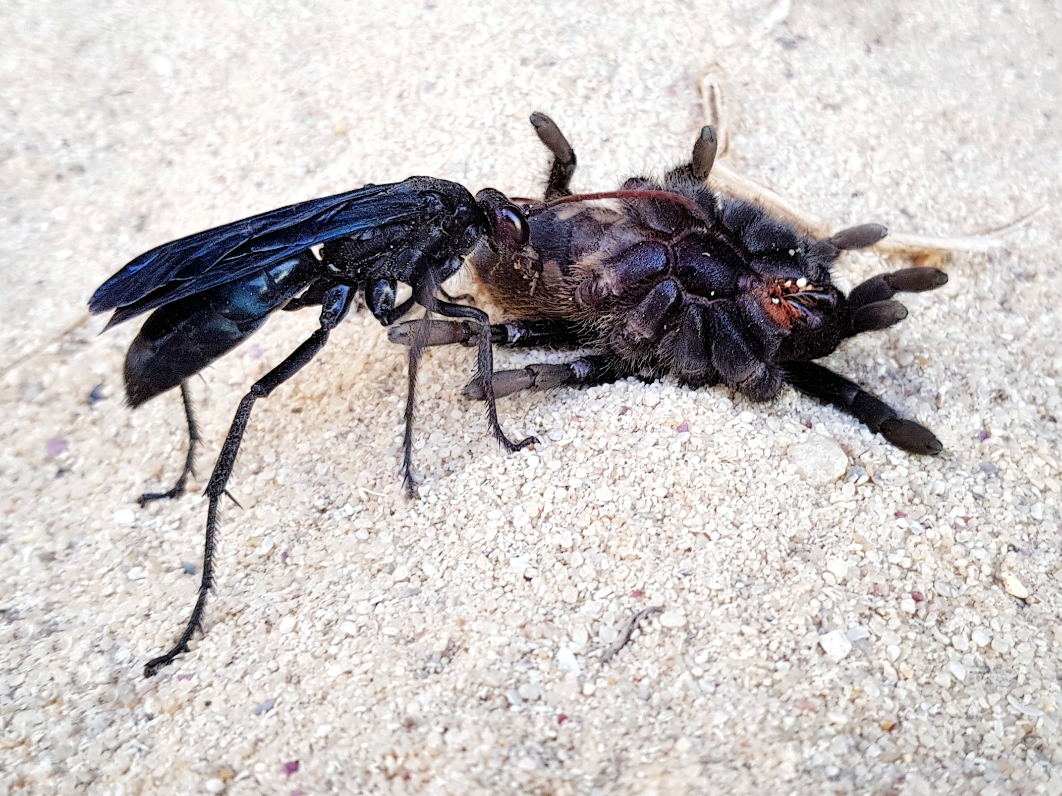 Female tarantula hawk or spider wasp (Pepsis or Hemipepsis) dragging a paralyzed tarantula at Sandy Bay, South Africa.